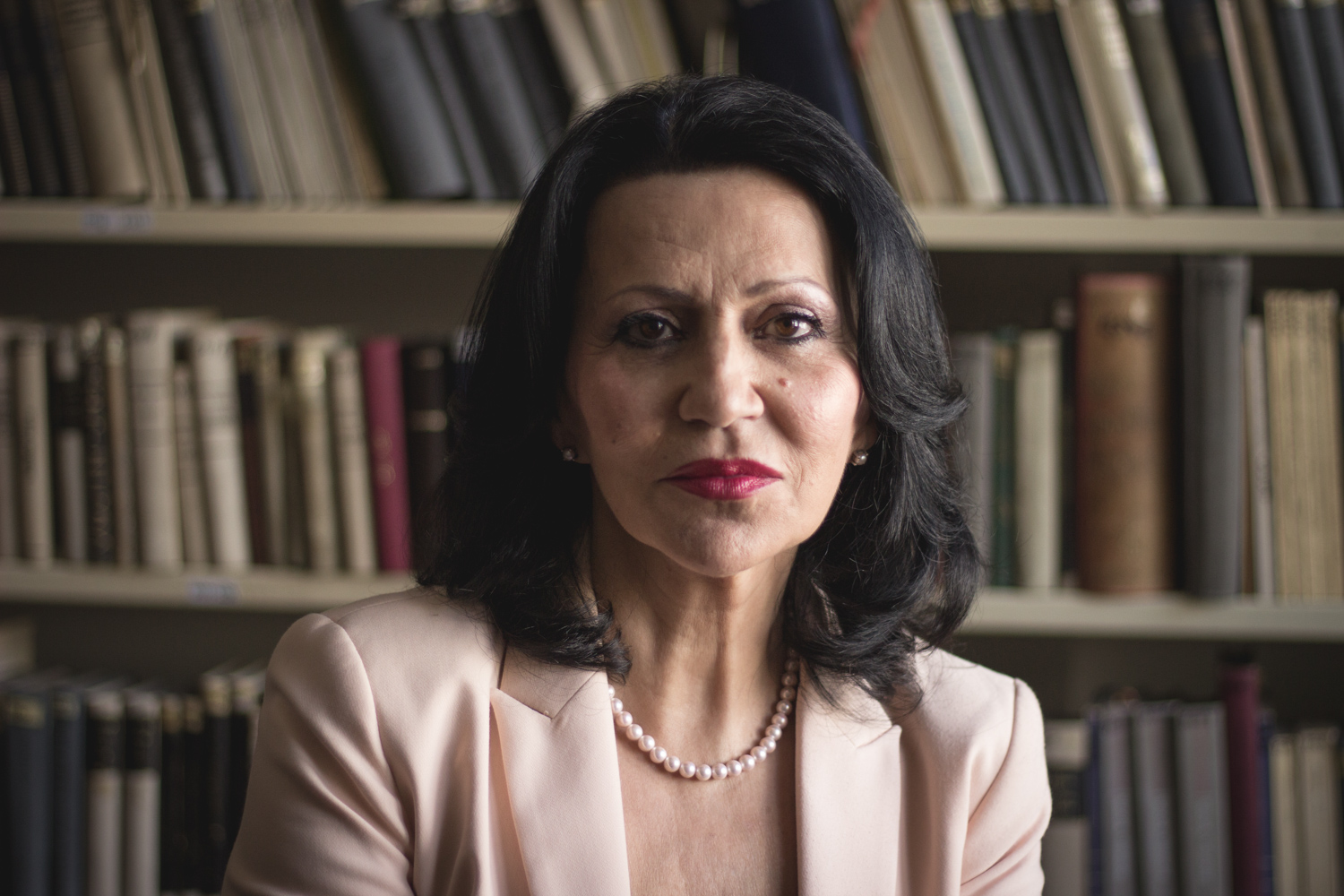 Rada Stijovic 3